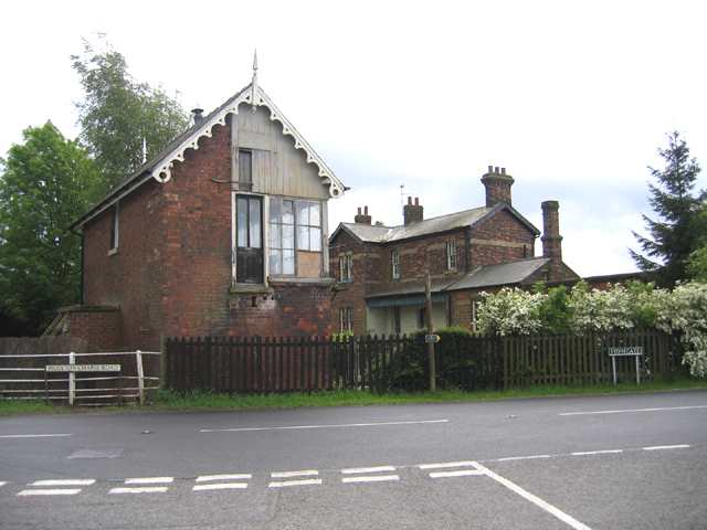 Signal box, Cowbit, Lincs